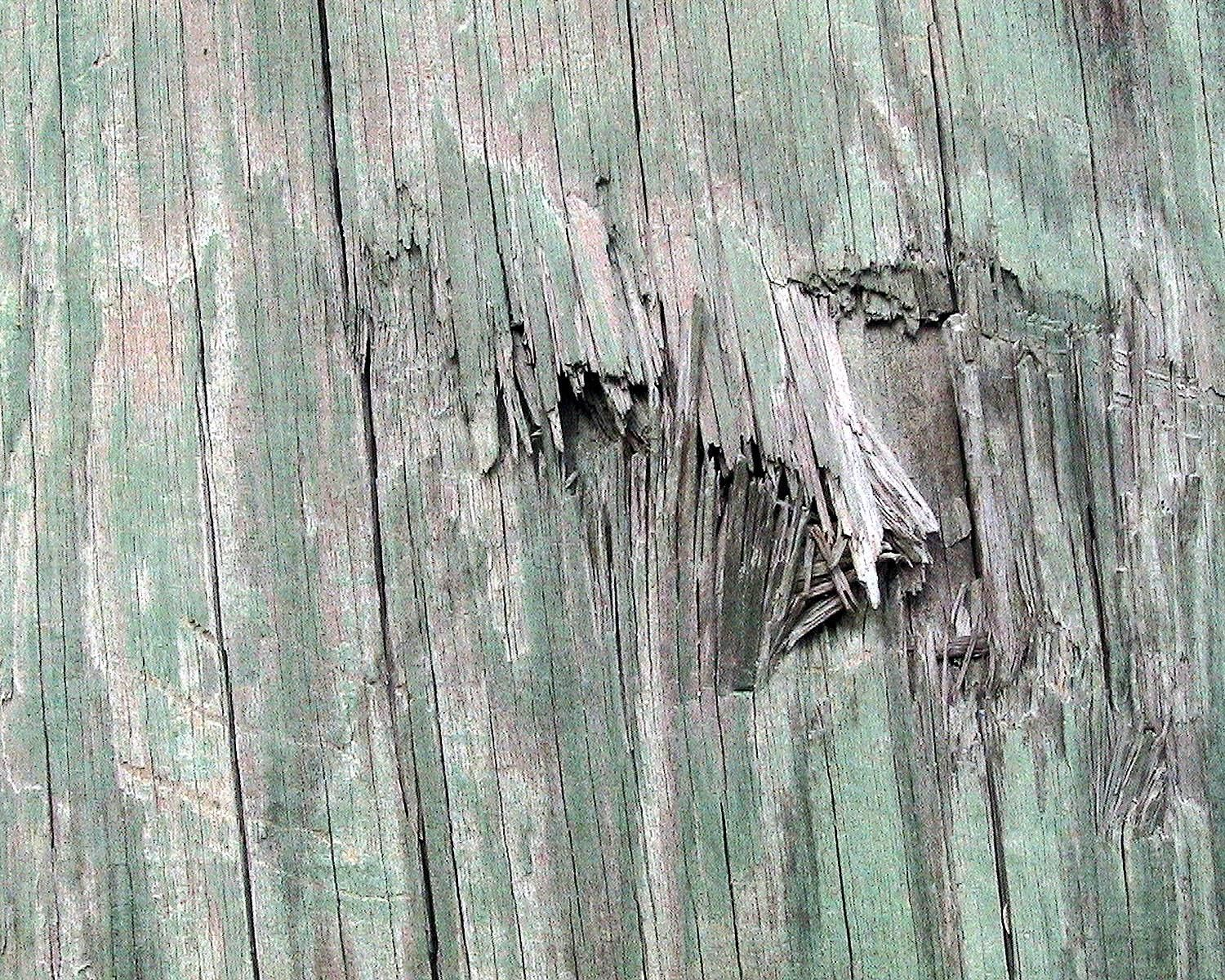 Image title: Old wood texture Image from Public domain images website